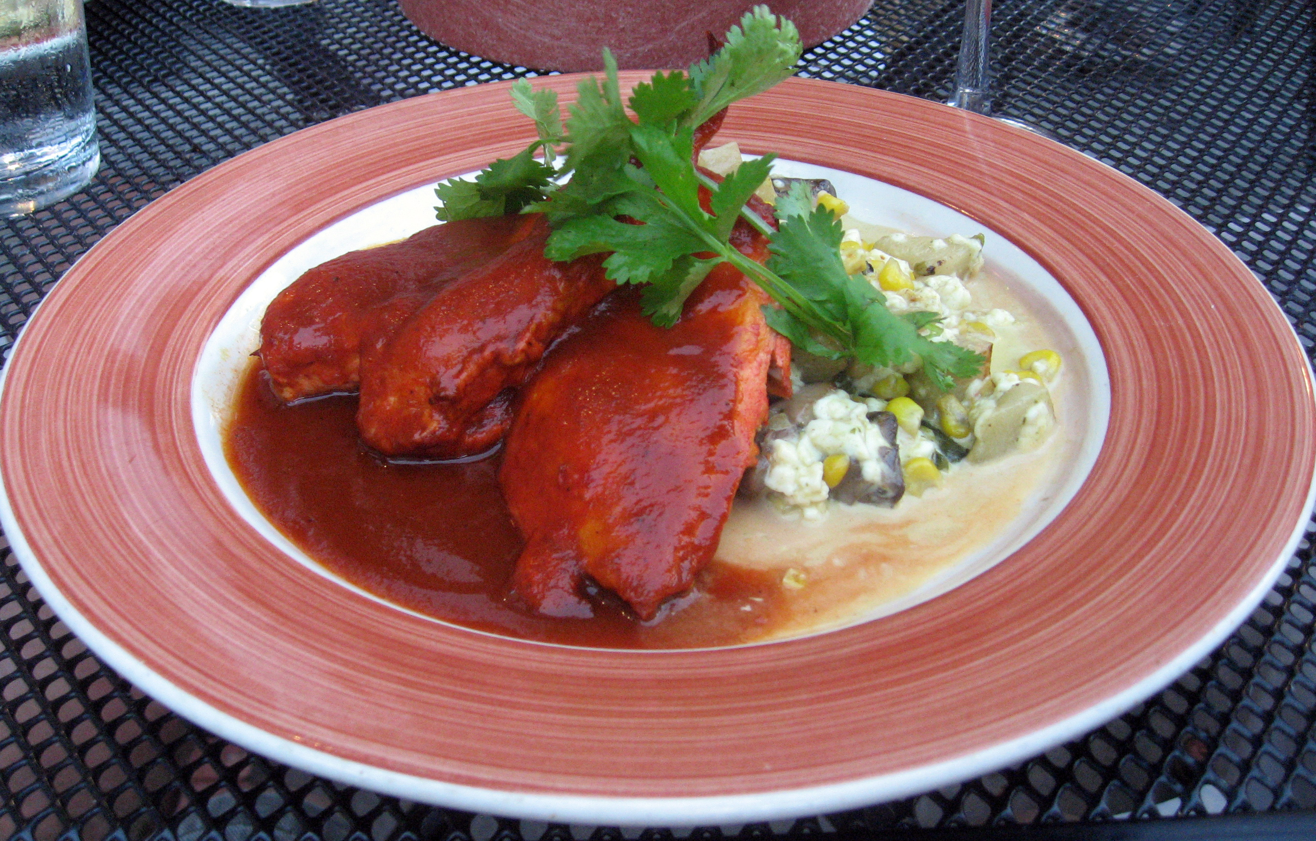 Marinated pan-seared chicken breast with sautéed chayote, shiitake mushrooms, corn, poblano rajas and ancho Adobo.